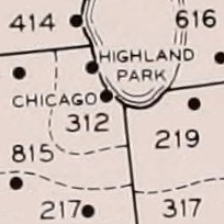 Area code 312, as of 1952